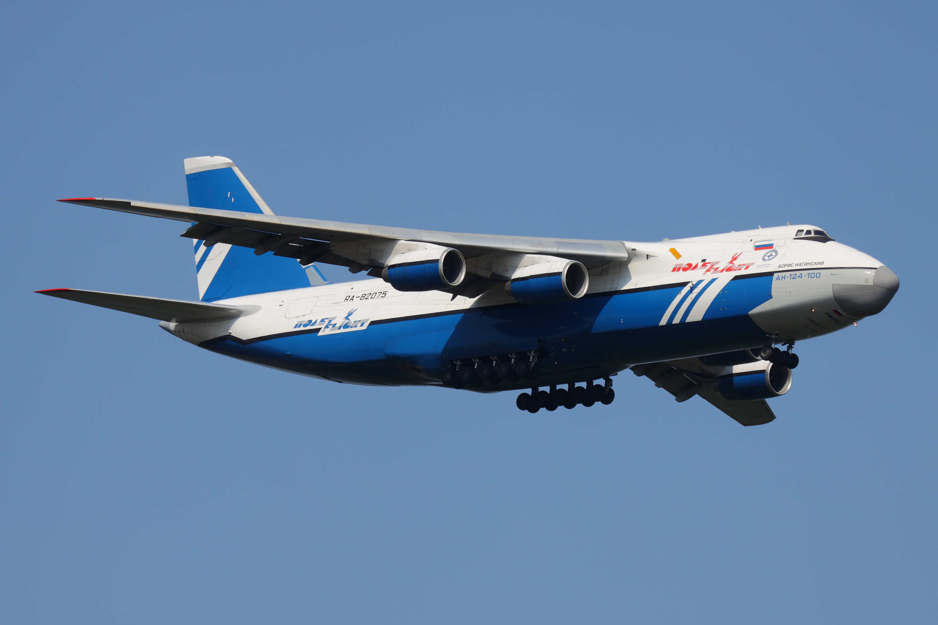 Polet Airlines Antonov An-124-100 RA-82075 on final approach to Moscow Sheremetyevo airport.